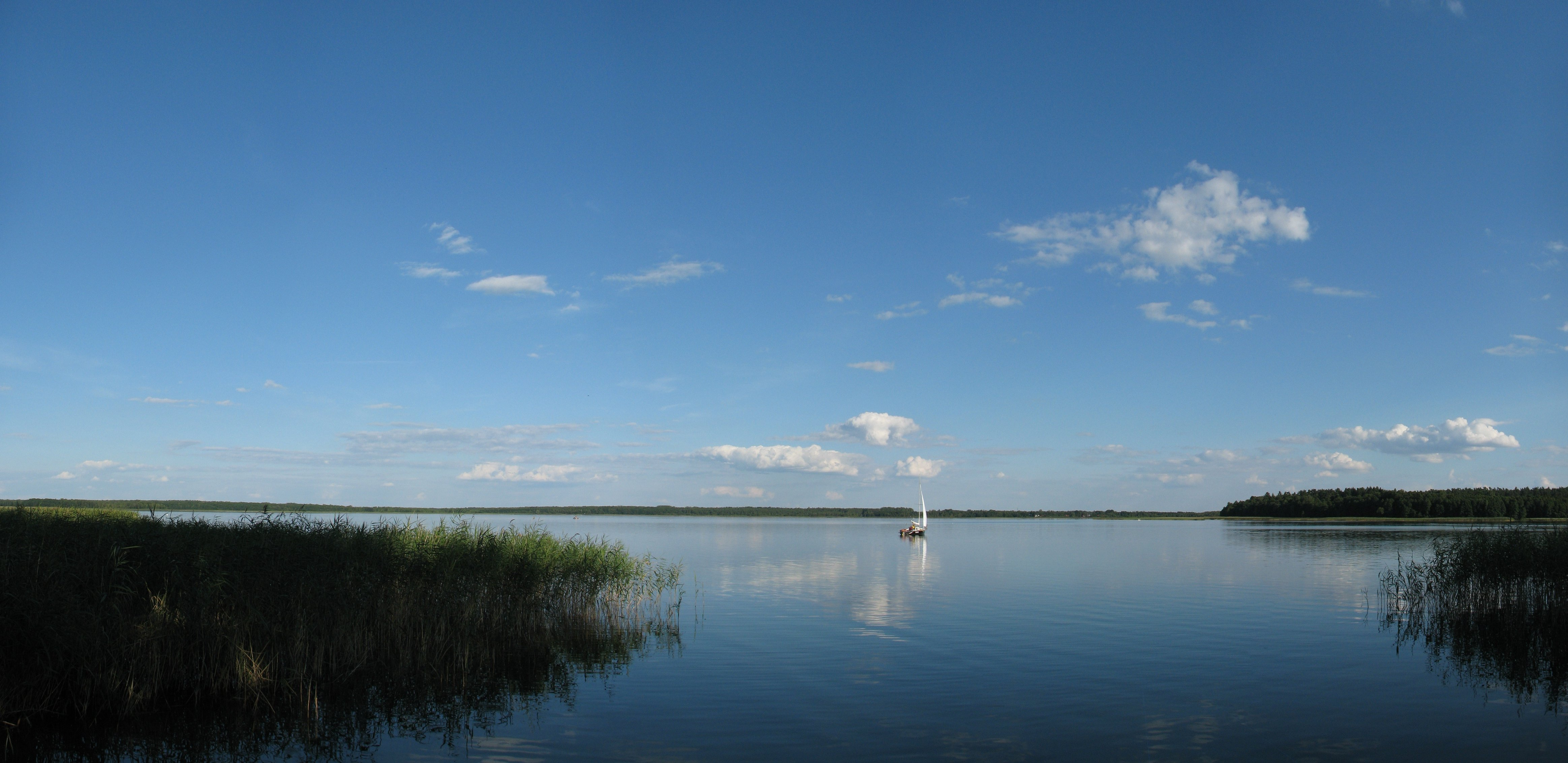 Seksty Lake viewed from Kaczor Peninsula